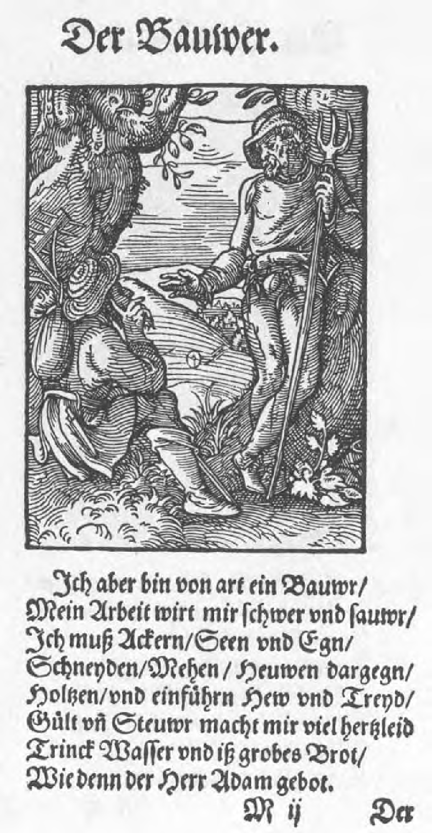 This is a scan of the historical document